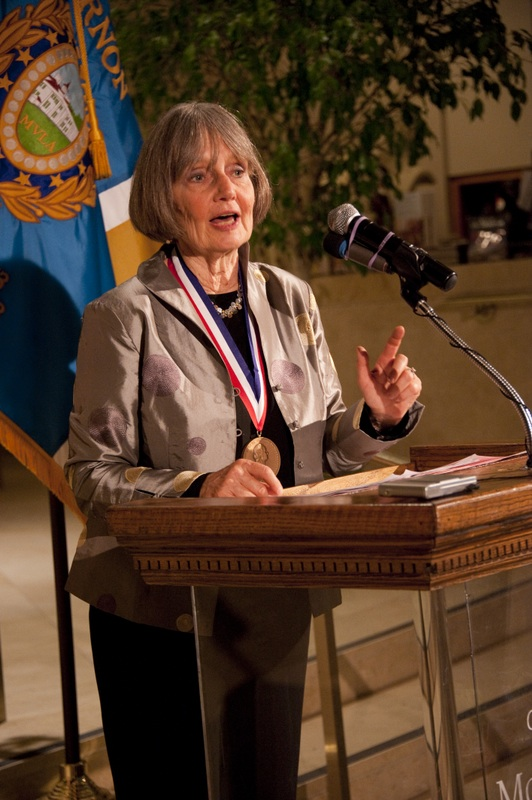 Pauline Maier is the 2011 winner of the George Washington Book Prize.